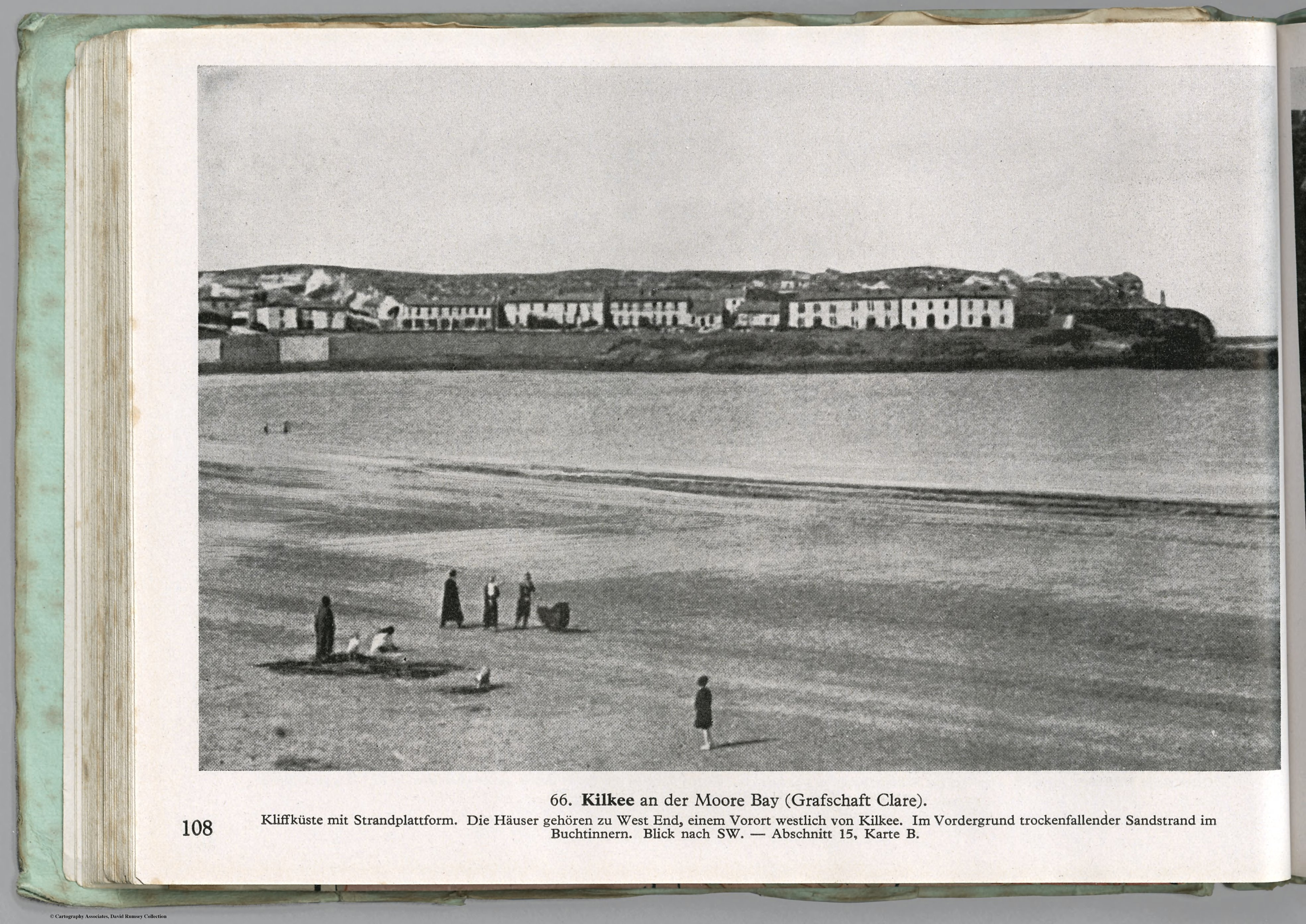 Photograph of Kilkee in Operation Sea Lion - the Original Nazi German Plan for the Invasion of Great Britain